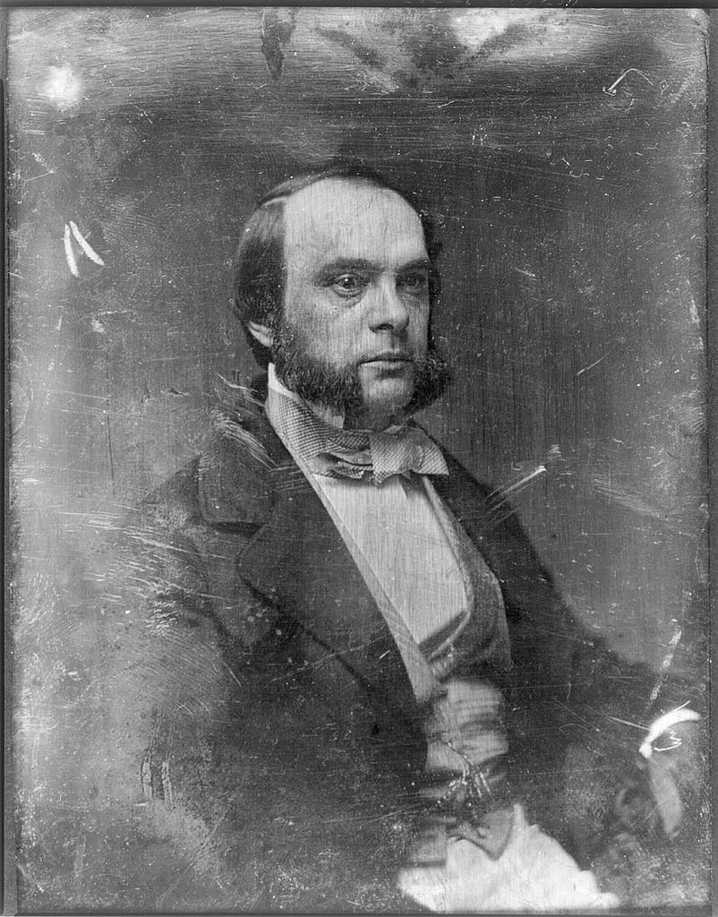 Portrait of August Belmont / Daguerreotype